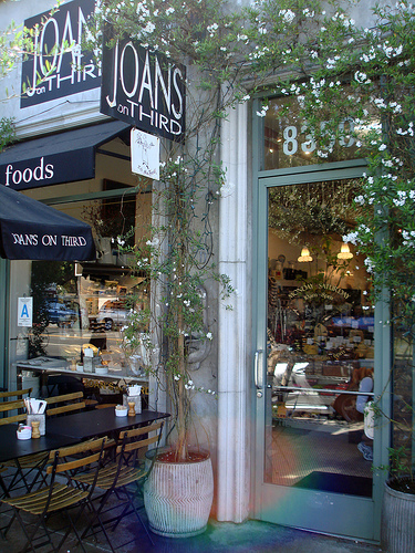 Front facade of restaurant Joan's on Third, Los Angeles, California